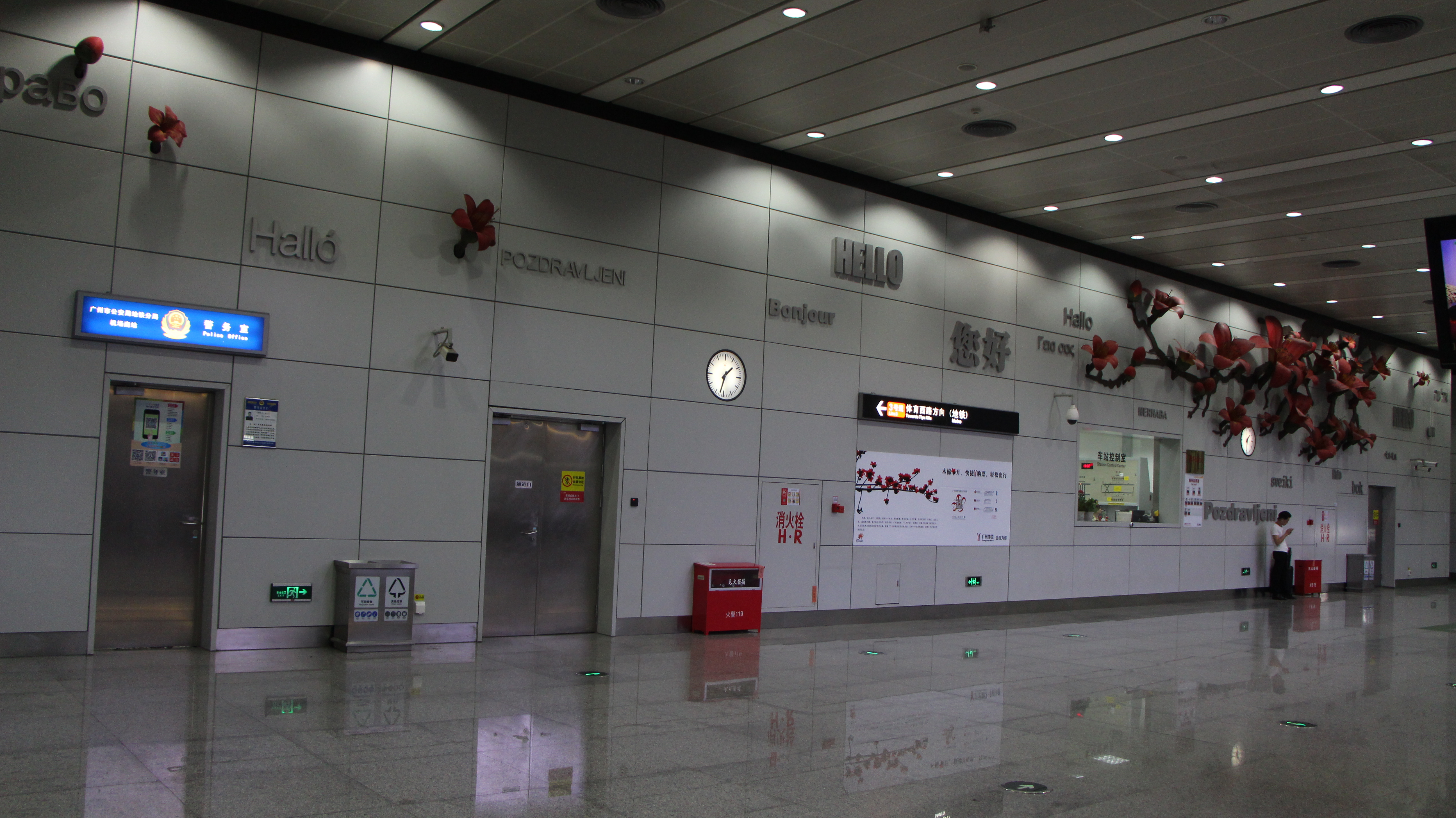 Culture Wall for West Concourse in Airport South Station, Guangzhou Metro, have finished since Oct., 2016.